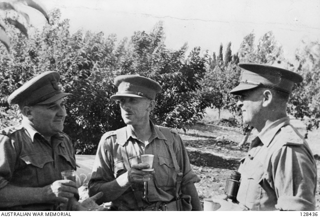 AWM Caption: Syria, 1941-06. Major General A. S. Allen; Brigadier F. H. Berryman and Brigadier A. R. Baxter-Cox.